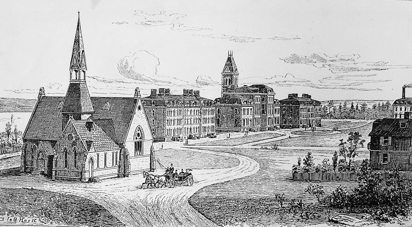 Engraving of "Stone Row" at Cornell University, 1874. Left to Right: Sage Chapel, Morrill Hall, McGraw Hall, White Hall, Sibley College.